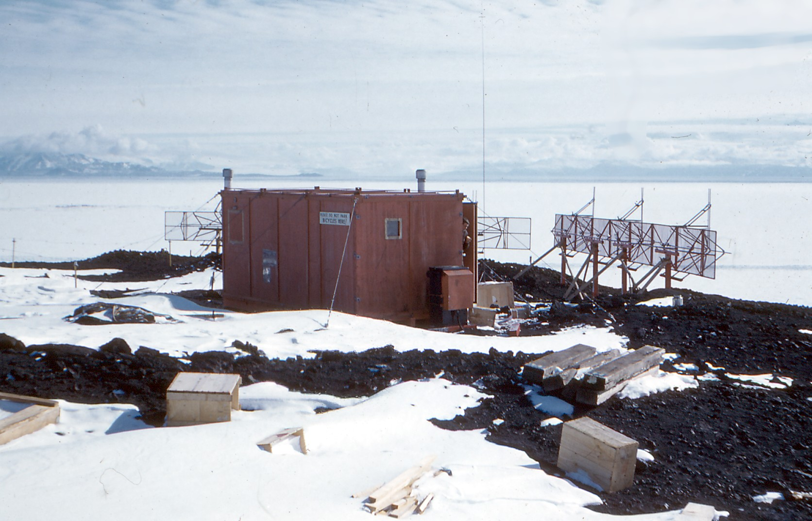 Newly constructed Arrival Heights Aurora radar station